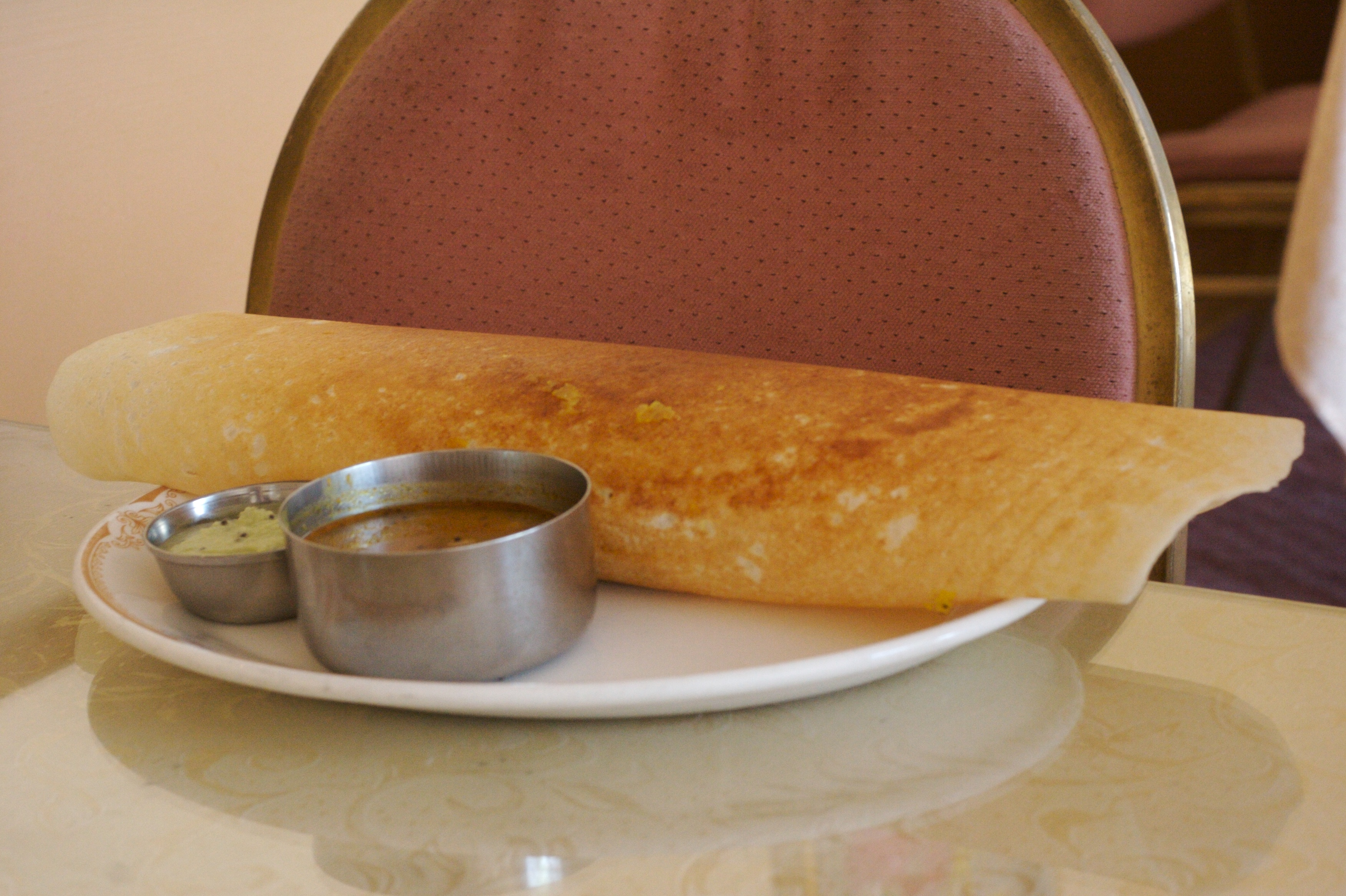 A plate of Dosa with Chutney and Sambhar